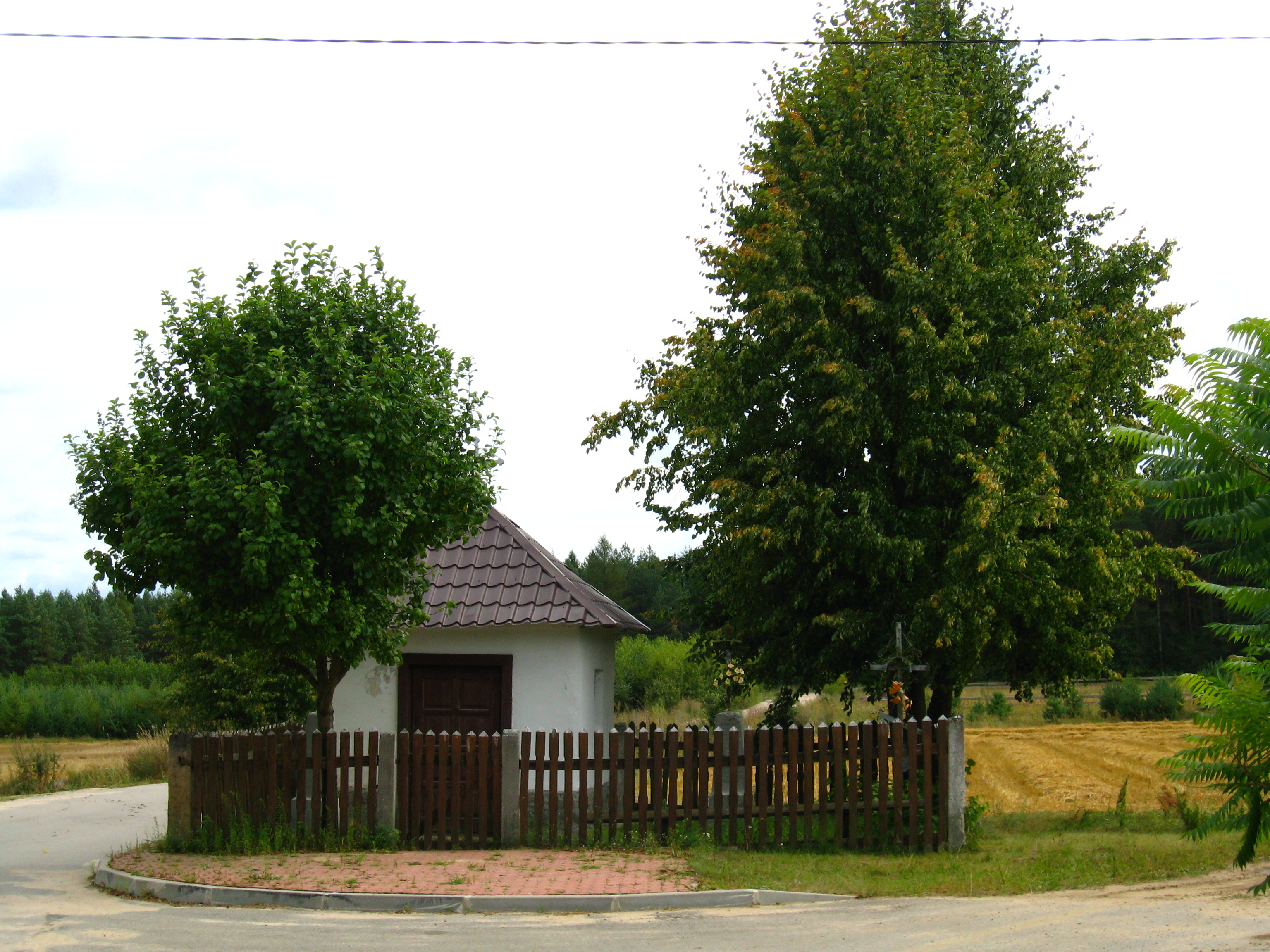 Nowosiółki, gmina Gródek